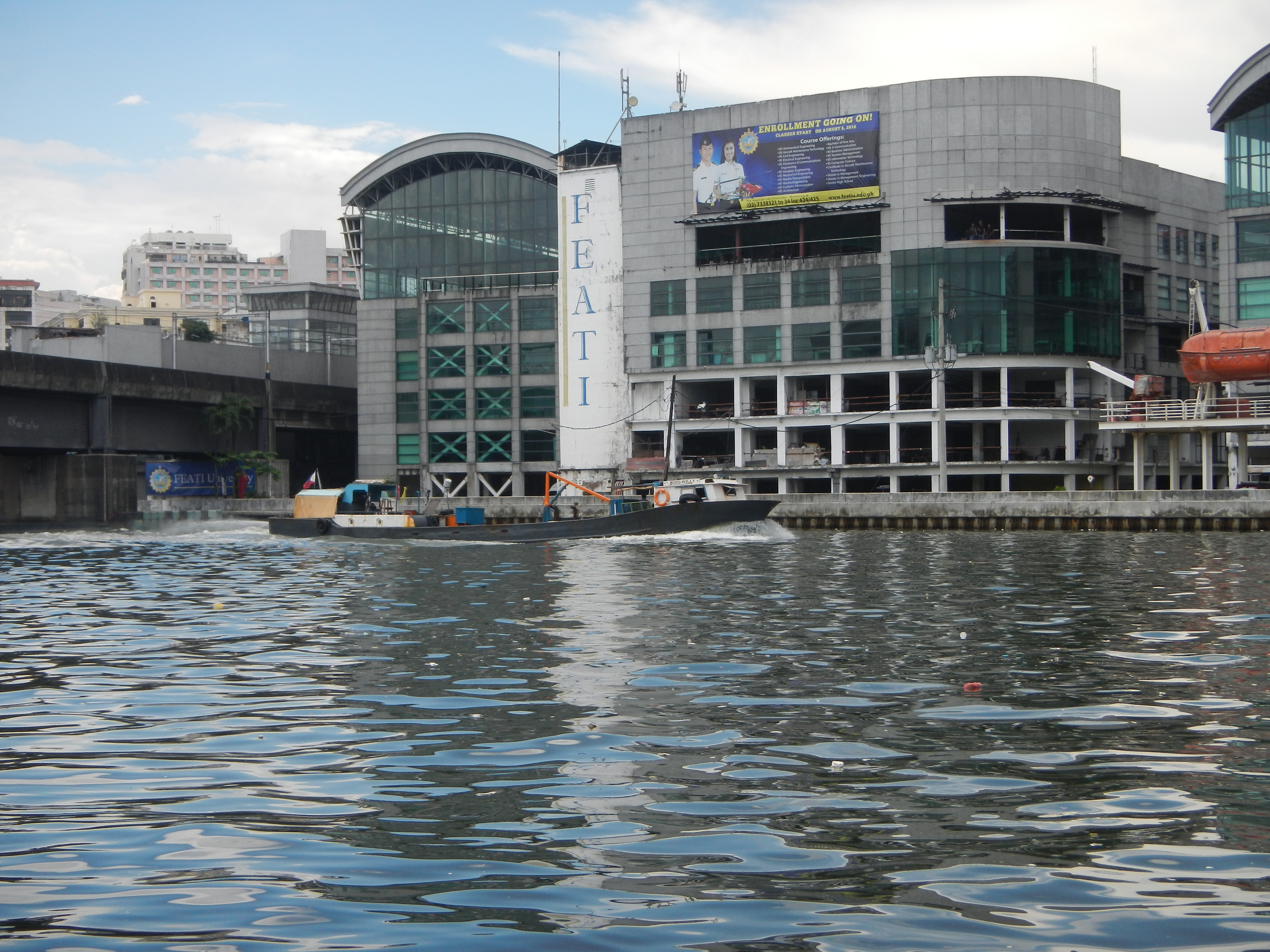 Quezon Boulevard along the Plaridel Corner-Obelisk, Plaza Miranda Plaza Miranda Quiapo Church, Quiapo, Manila, Legislative districts of Manila, City of Manila connected by the 2016 Rehabilitation, repair, maintenance and construction of the Quezon Bridge or M. Quezon Bridge or Manuel L. Quezon Memorial Bridge, Sta. Limit 1+930 Load Limit 5 metric Tons formerly Puente Colgante (Manila), along Pasig River List of crossings of the Pasig River Pasig River (Quiapo-Santa Cruz, Manila Section) Quezon Bridge Ferry Station (Lawton) of the Pasig River Ferry Service, under the Metropolitan Manila Development Authority.